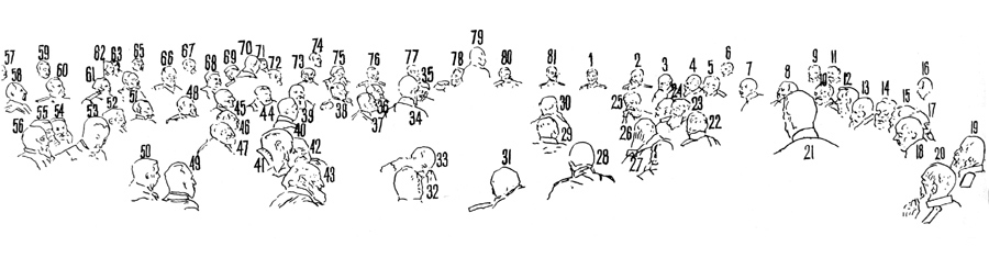 Numbered persons on Ilya Repin's painting Formal Session of the State Council on May 7, 1901. Follows full list of persons in Russian.